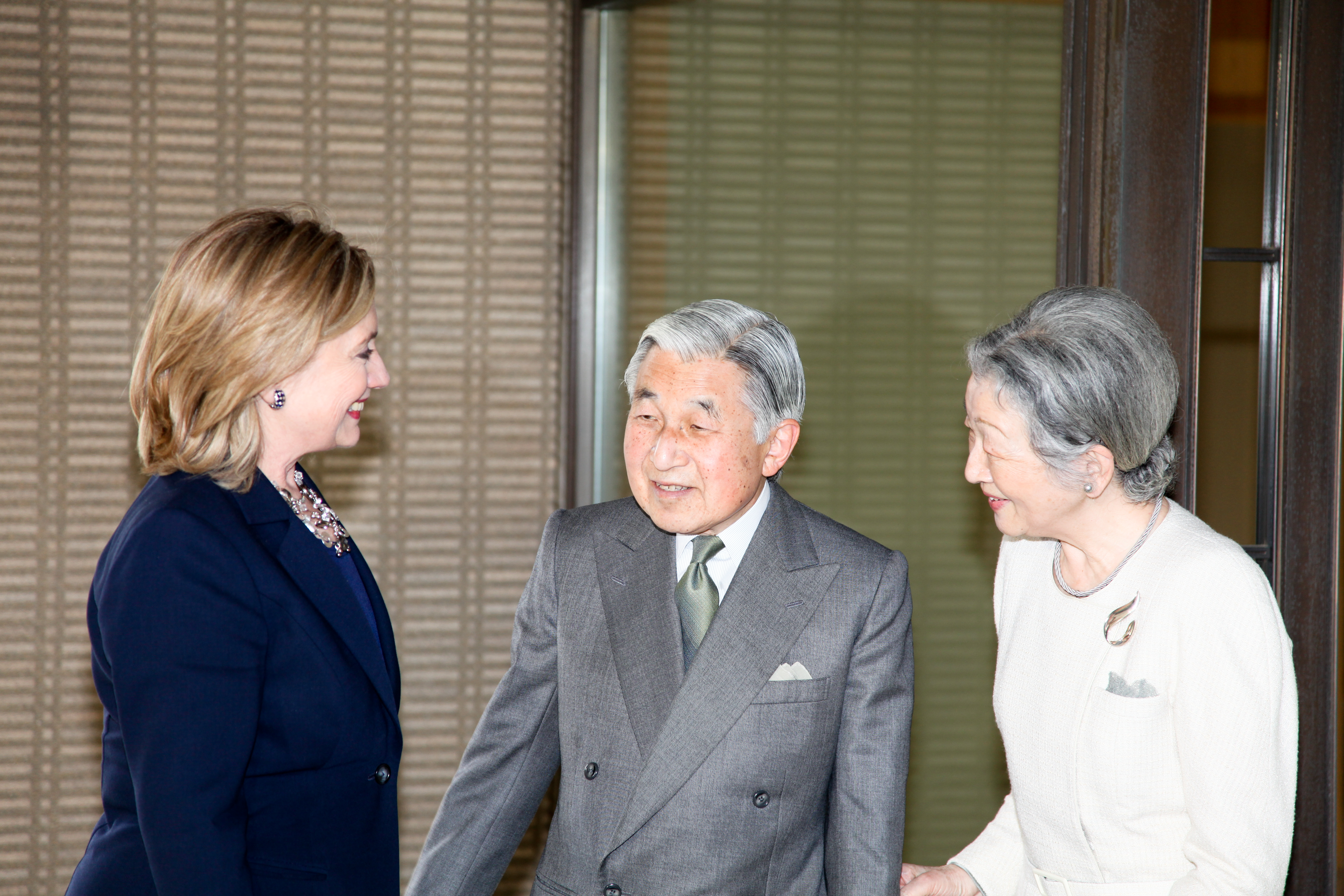 Secretary Clinton visits Emperor Akihito and Empress Michiko at the Imperial Palace during her 4/17 visit to Tokyo.